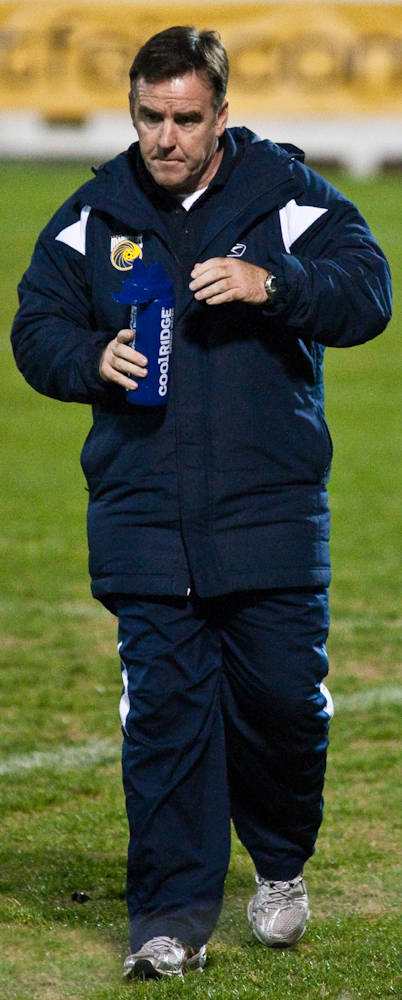 Lawrie McKinna at a pre-season match between the Central Coast Mariners and Sydney FC.